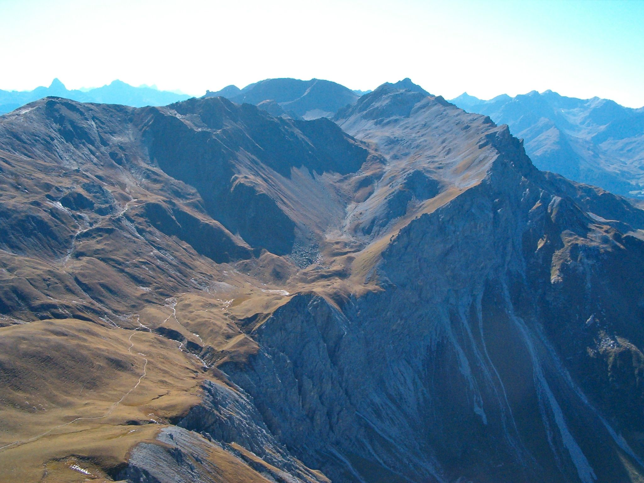 the Strela Mountain-Chain at Arosa, Switzerland